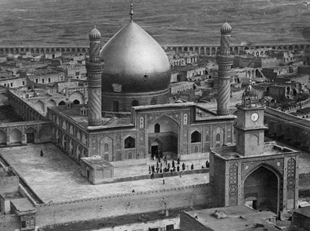 Al-Askari Mosque, 1917